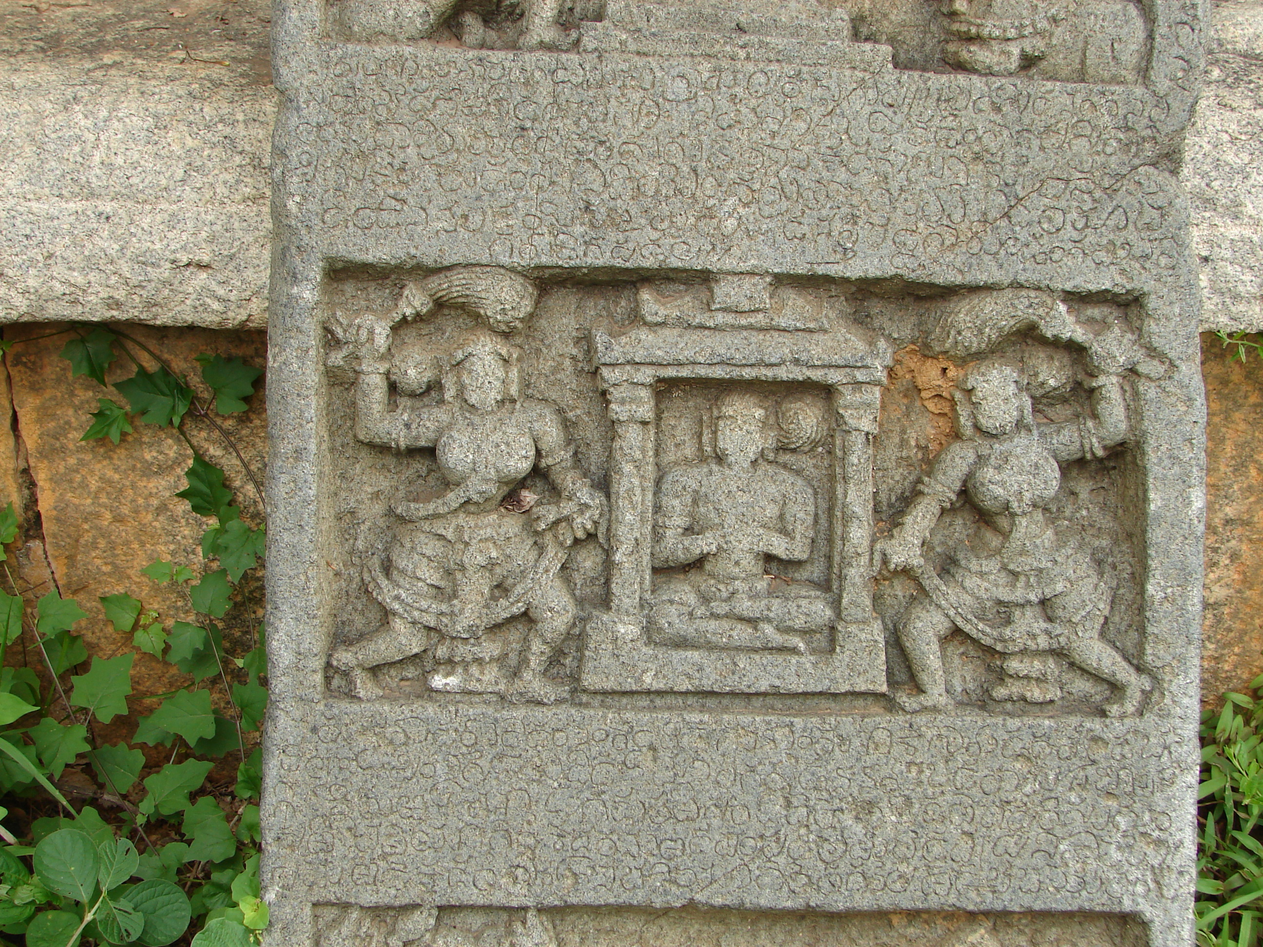 This photograph was taken by me at the Kalleshvara temple (also spelt as Kalleshwara) in Aralaguppe, Tumkur district, Karnataka state, India. This inscription is from the period 870-906 A.D., during the rule of Western Ganga dynasty King Rachamalla II. Hero stones were created to honor a fallen warrior for his bravery.